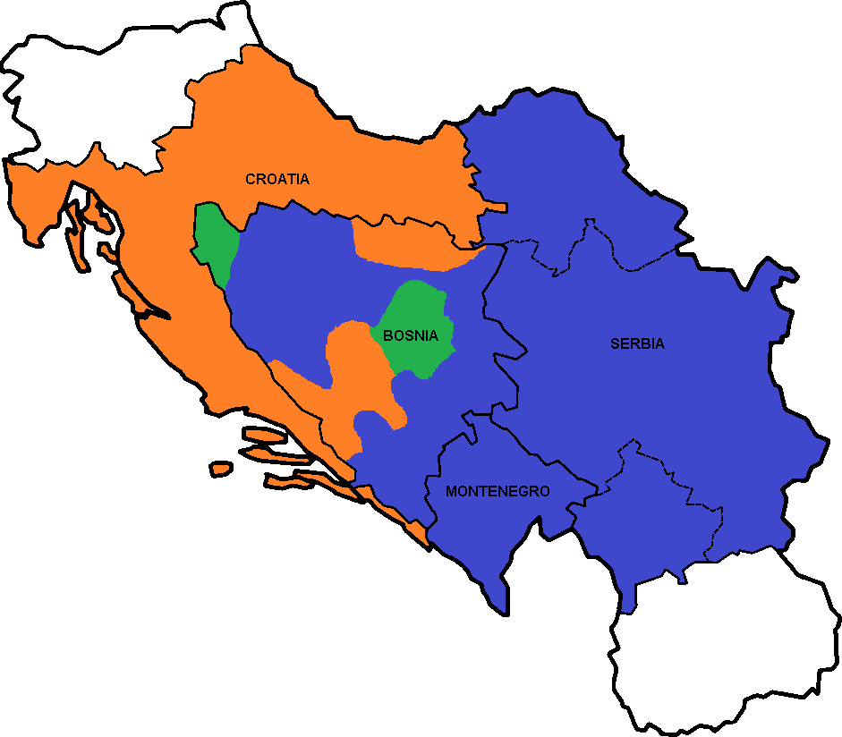 Map of the proposed partition of Bosnia and Herzegovina from 1992 Graz agreement. Map based on image shown in the BBC documentary Death of Yugoslavia.